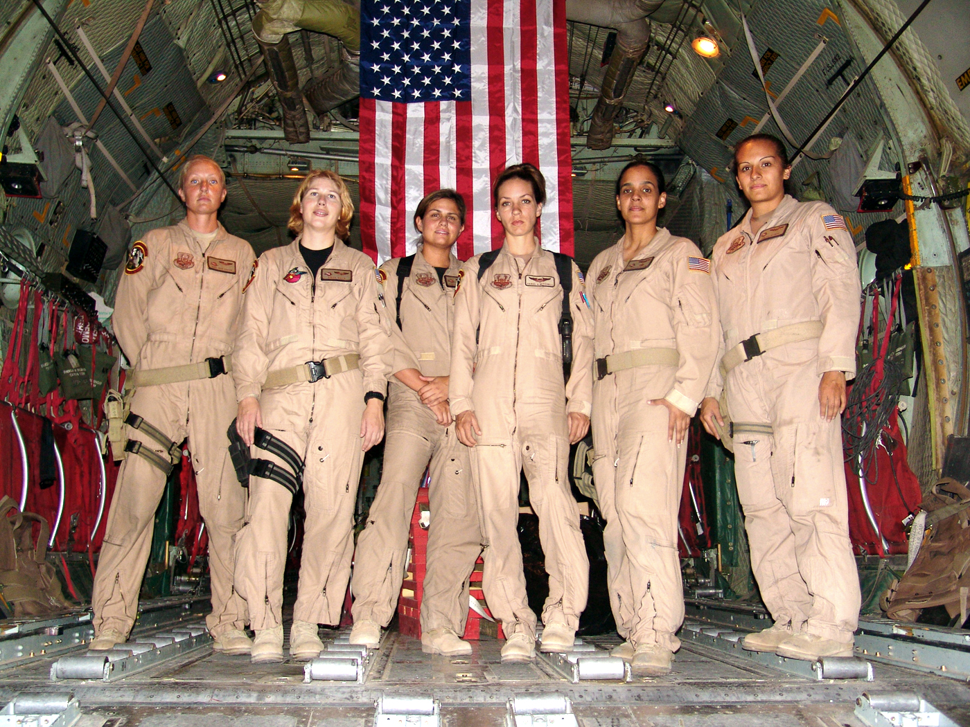 From left to right, Staff Sgt. Josie E. Harshe, flight engineer; Capt. Anita T. Mack, navigator; 1st Lt. Siobhan Couturier, pilot; Capt. Carol J. Mitchell, aircraft commander; and loadmasters Tech. Sgt. Sigrid M. Carrero-Perez and Senior Airman Ci Ci Alonzo, pause in the cargo bay of their Lockheed C-130 Hercules for a group photo following their historic flight. A crew of six Airmen at a forward deployed location climbed aboard a Lockheed C-130 Hercules together recently for the first time in their careers. But something distinguished this mission from others they had flown --it was the first time an all-female C-130 crew flew a combat mission. The women were all permanently assigned to the 43rd Airlift Wing at Pope Air Force Base, North Carolina (USA), and were deployed to the 737th Expeditionary Airlift Squadron flying cargo and troops in and out of Iraq, Afghanistan and the Horn of Africa.